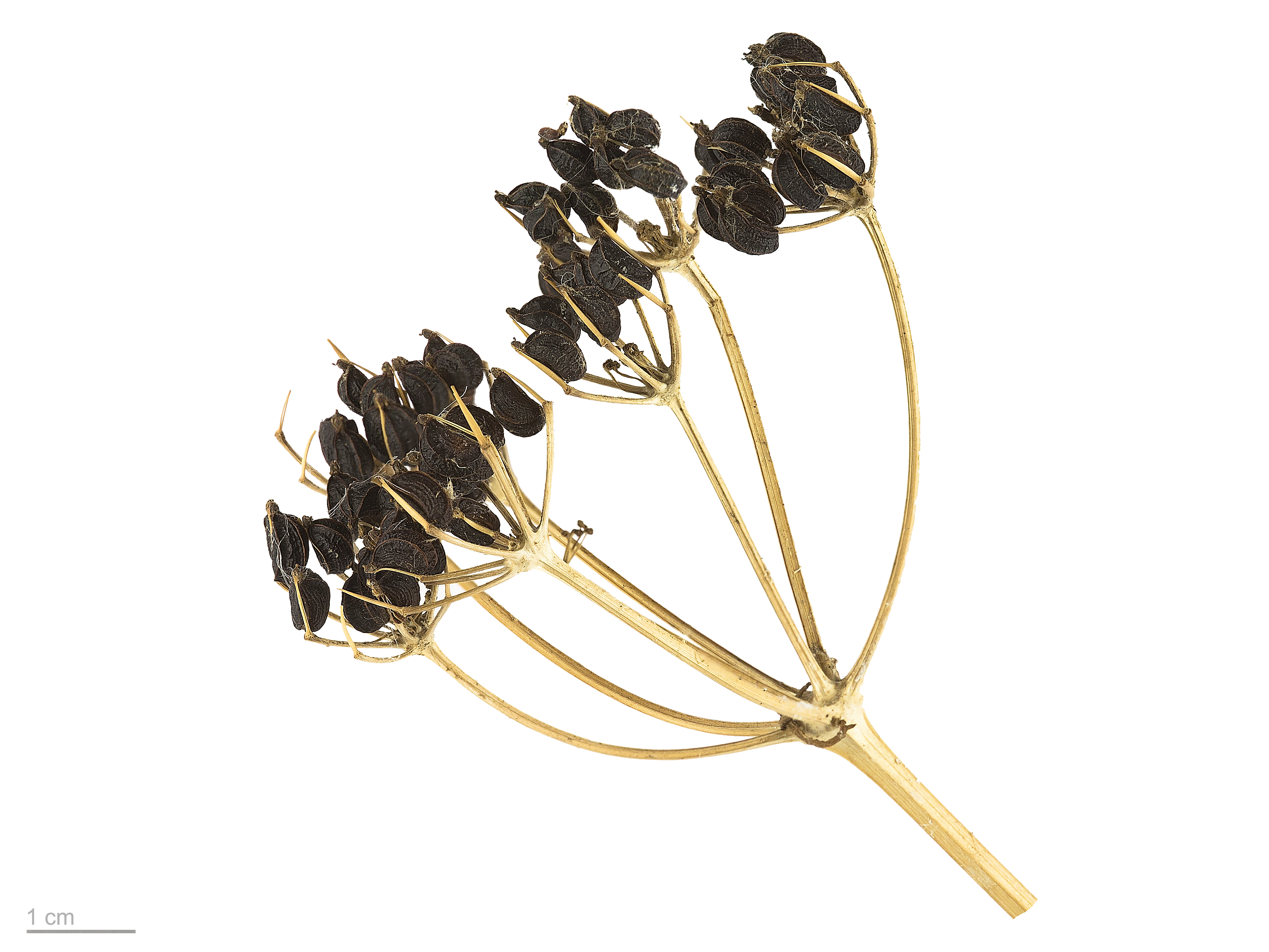 Alexanders , fruits and seeds